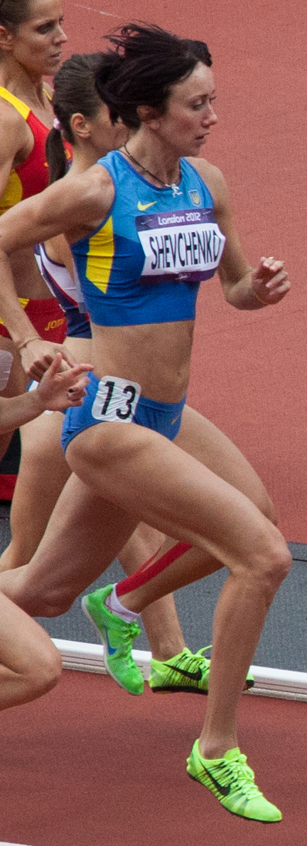 Anzhela Shevchenko competing at the 2012 Summer Olympics